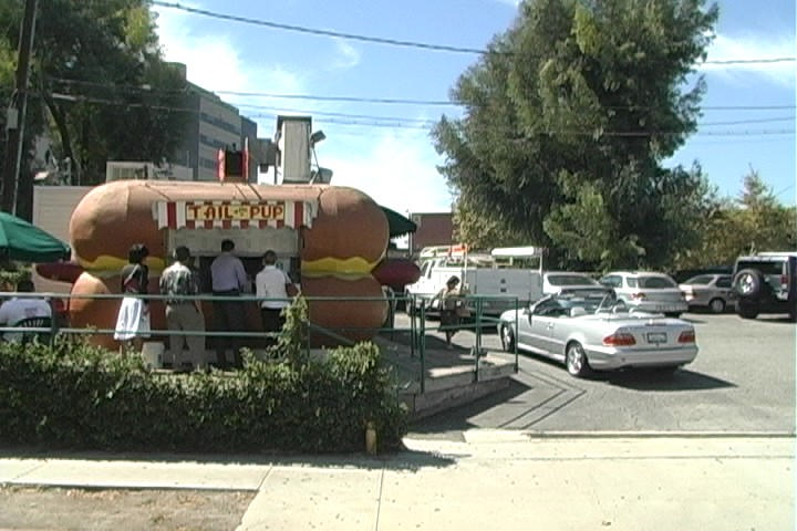 Busy day for the Tail o' the Pup hot dog stand